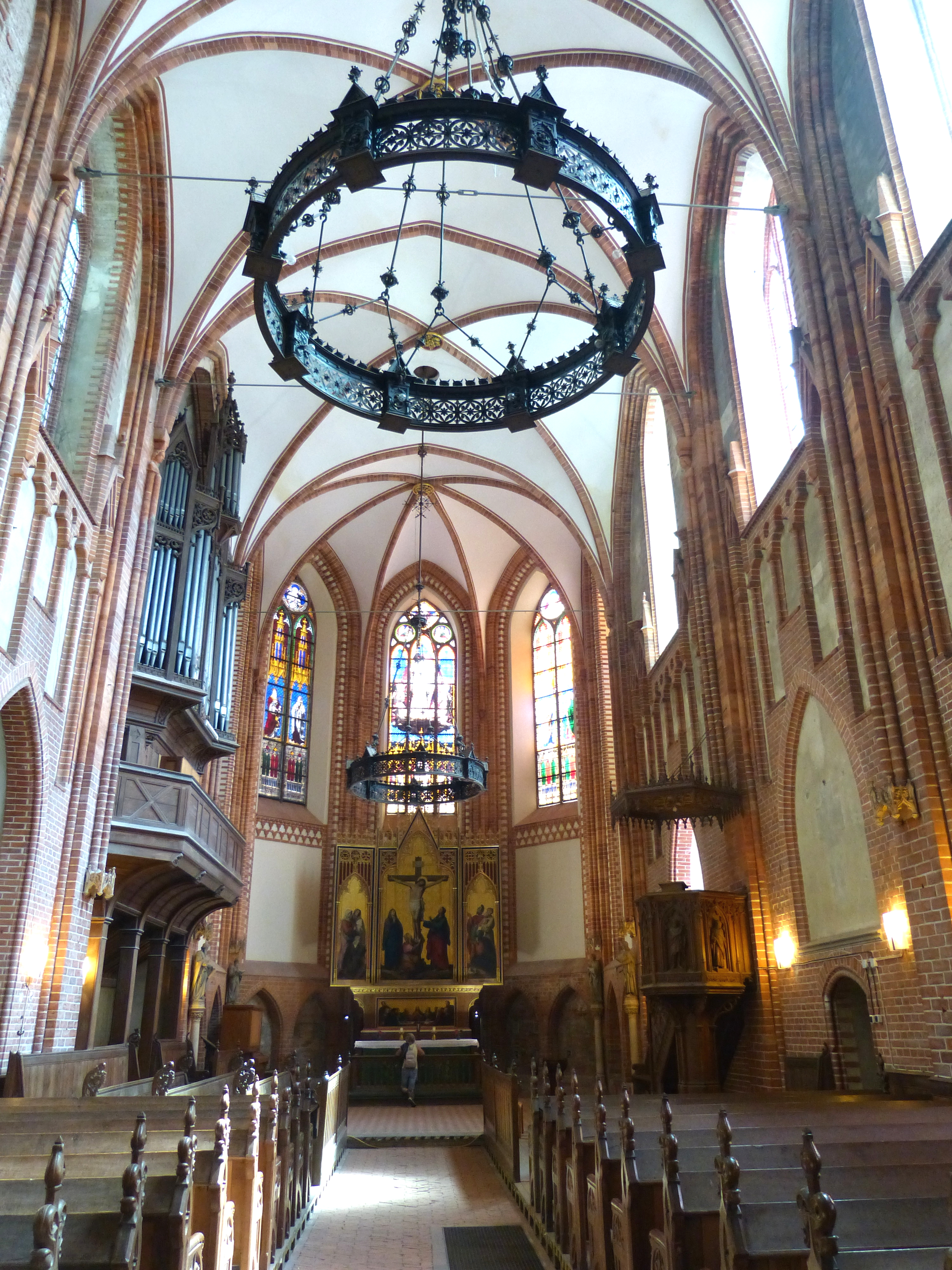 Dobbertin ( Mecklenburg ). Monastery church: Interior.